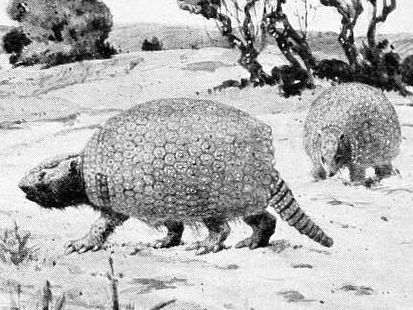 Life restoration of Propalaeohoplophorus australis from W.B. Scott's A History of Land Mammals in the Western Hemisphere. New York: The Macmillan Company.